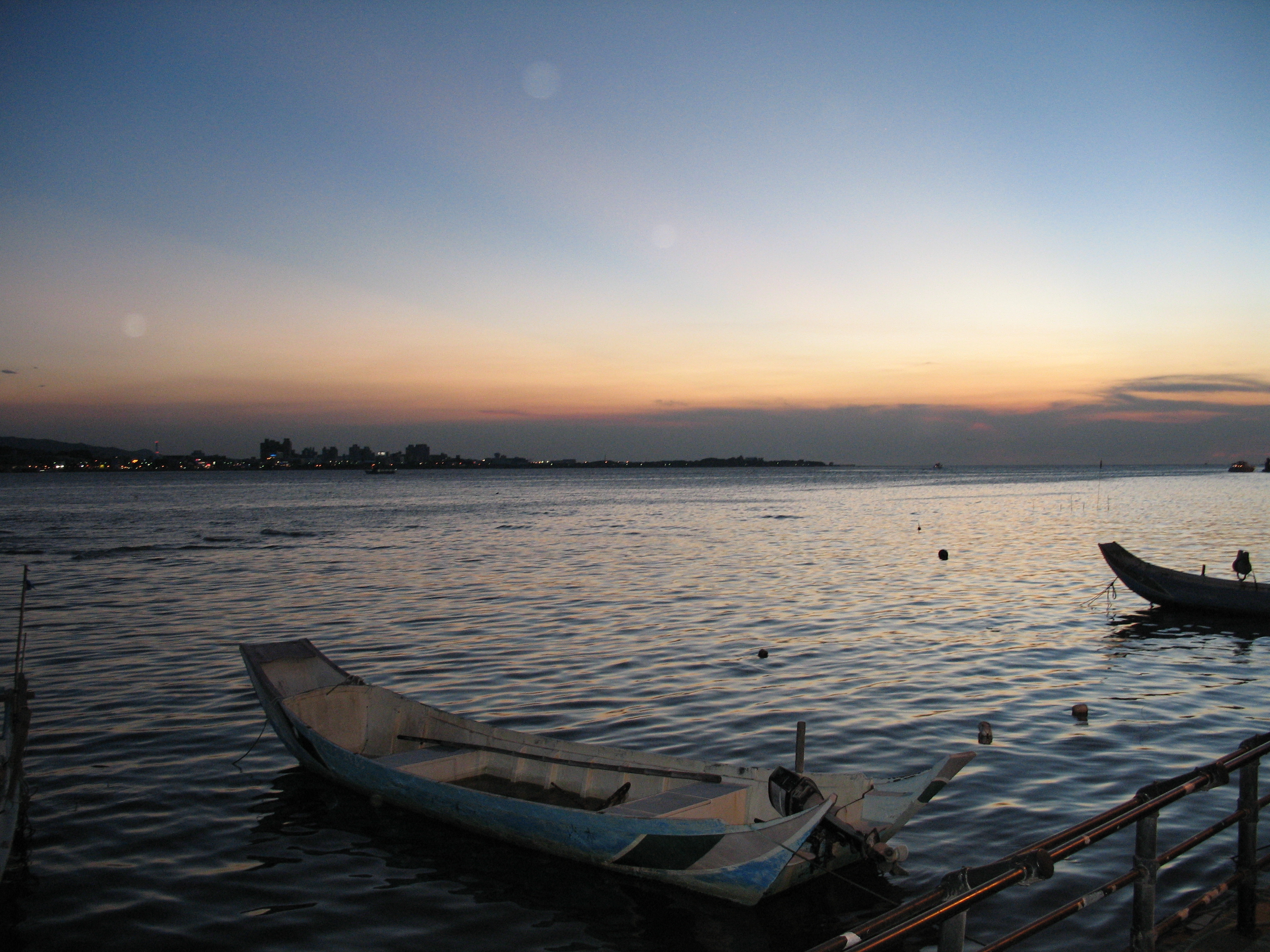 Danshui, Taiwan.